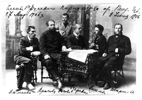 The Members of the First Russian State Duma from Penza Region: P. Dyumaev, V. Vragov, V. Rogov, N. Ezerski, M. Kiselev, N. Shirshkov